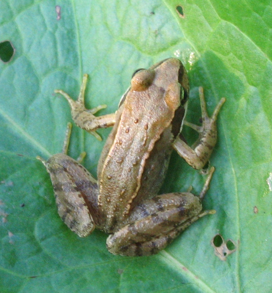 Following German Wikipedia Rana dalmatina. Genus Rana (most probably Rana temporaria, perhaps Rana dalmatina. Taken in the Black Forest.